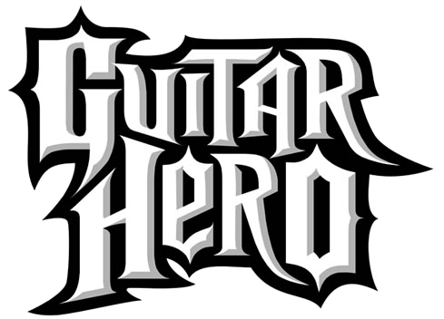 Guitar Hero's logo using the typeface font Nightmare Hero